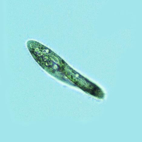 Paramecia tetraurelia at 200x